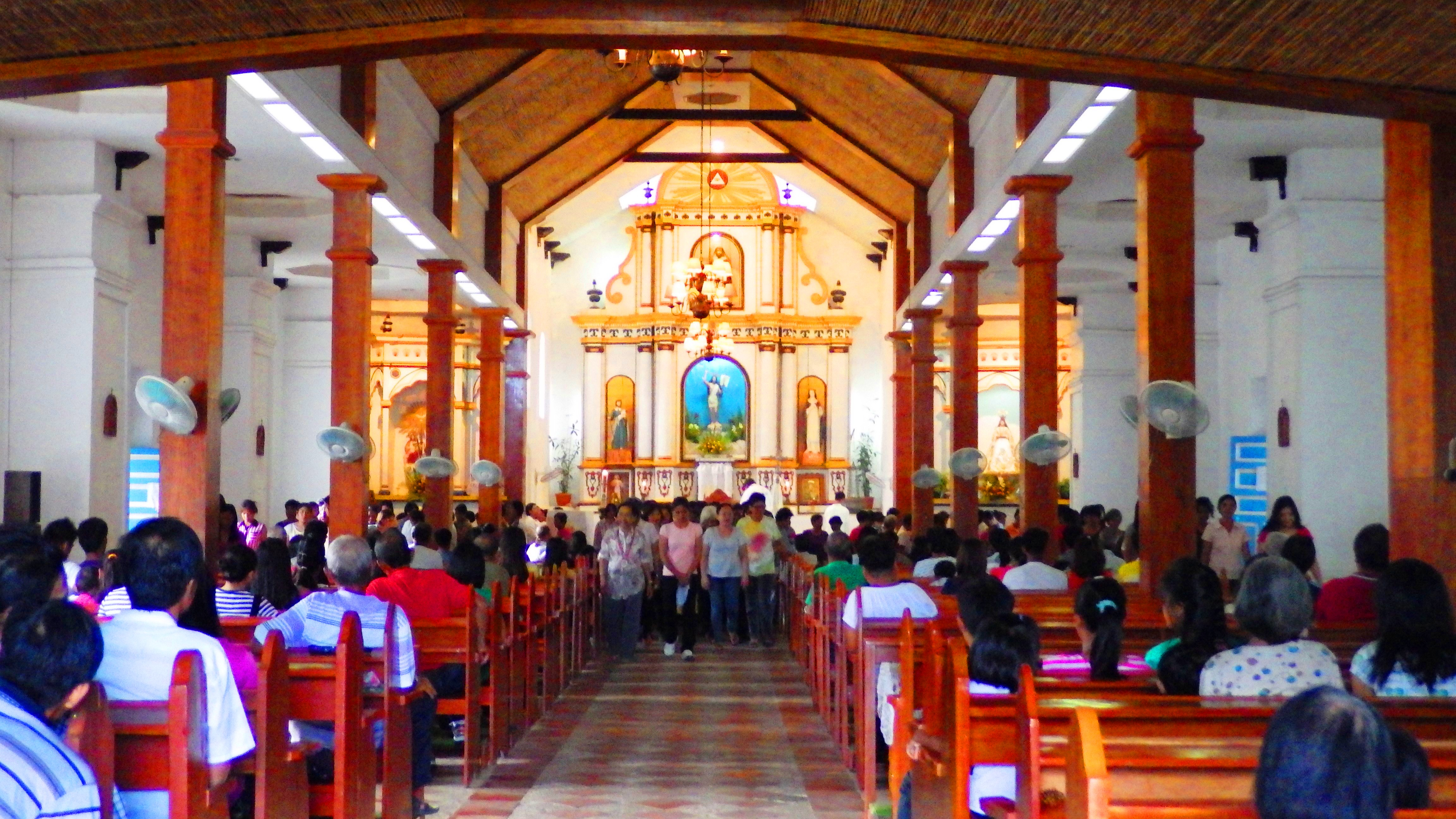 San Carlos Borromeo Church interior